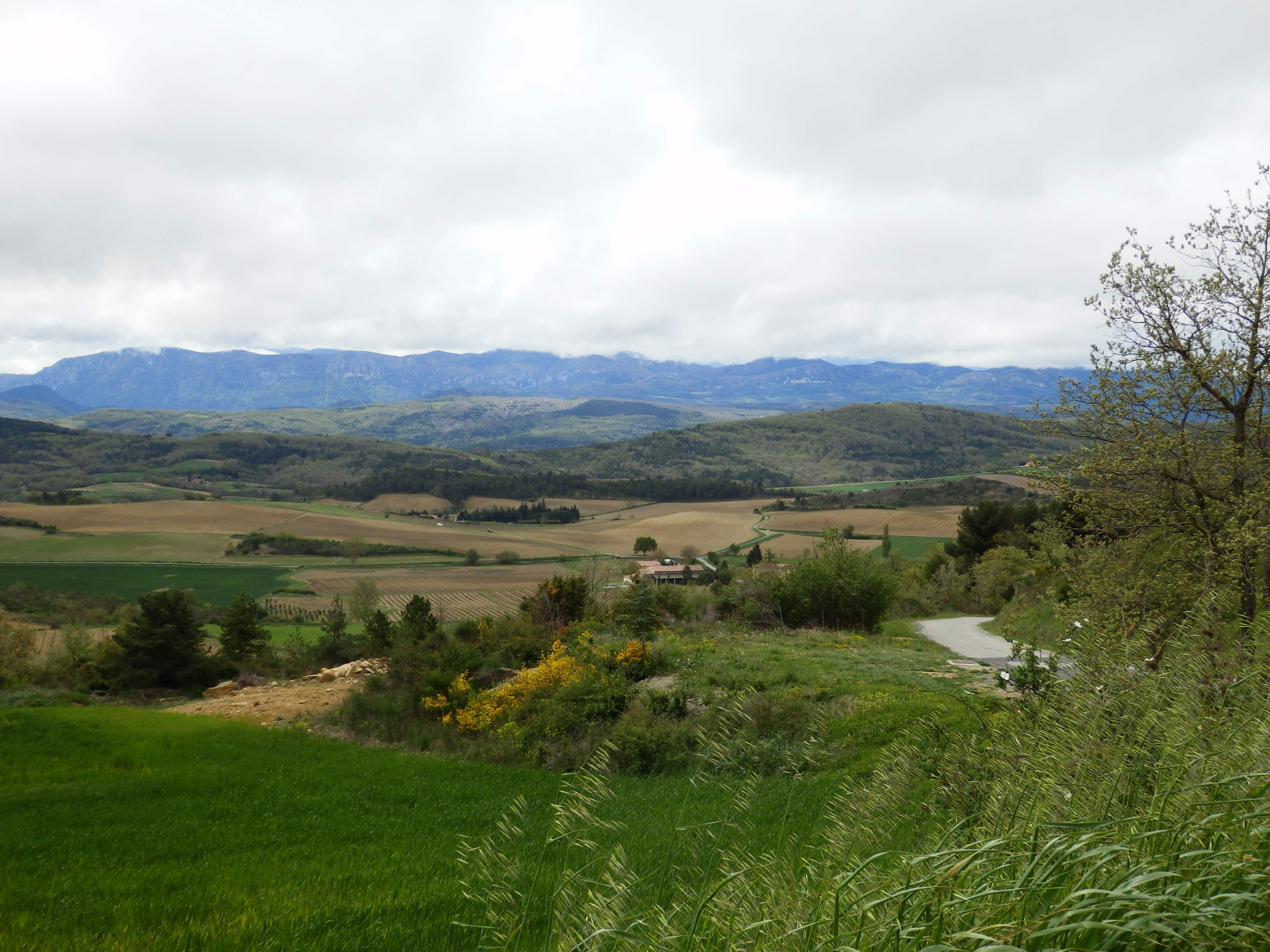 Landscape in Conilhac-de-la-Montagne, Aude, France